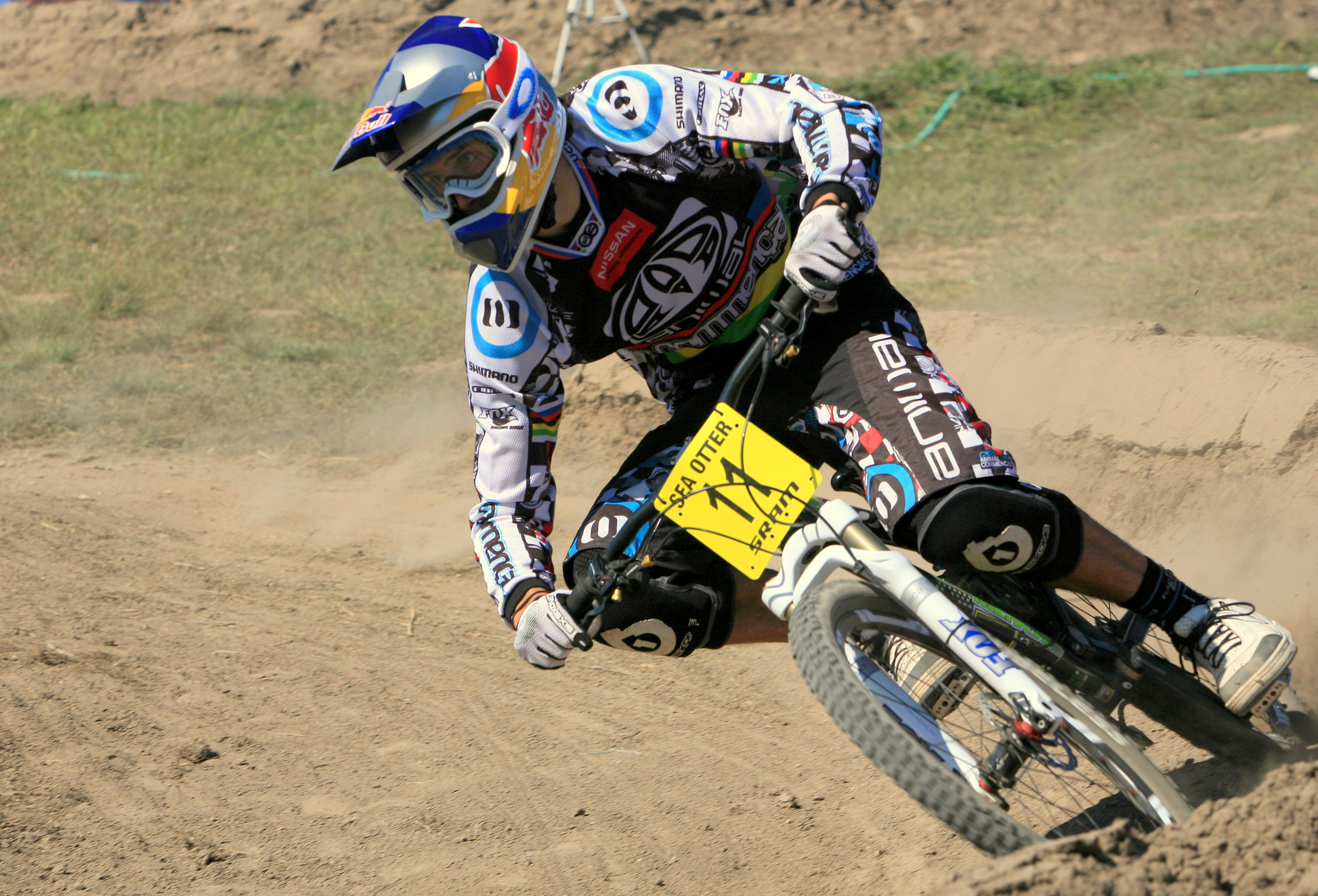 Gee Atherton during the first round match-up of the Elite-Men's Dual Slalom event at the 2009 Sea Otter Classic in Laguna Seca, CA.